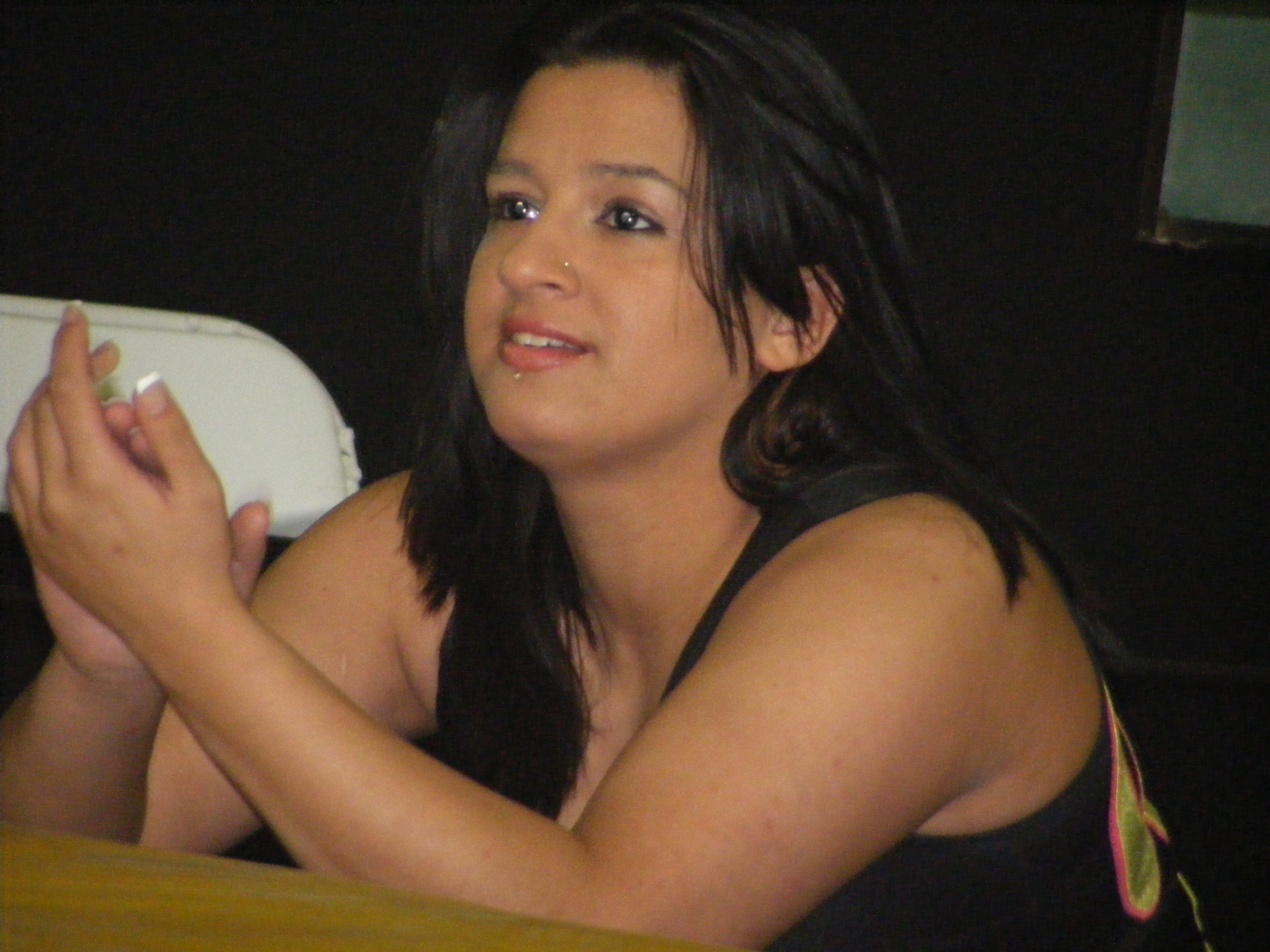 Female professional wrestler Ariel (real name Ana Rocha) at a DPW show on March 22, 2009